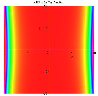 Sinhc'(z) abs plot